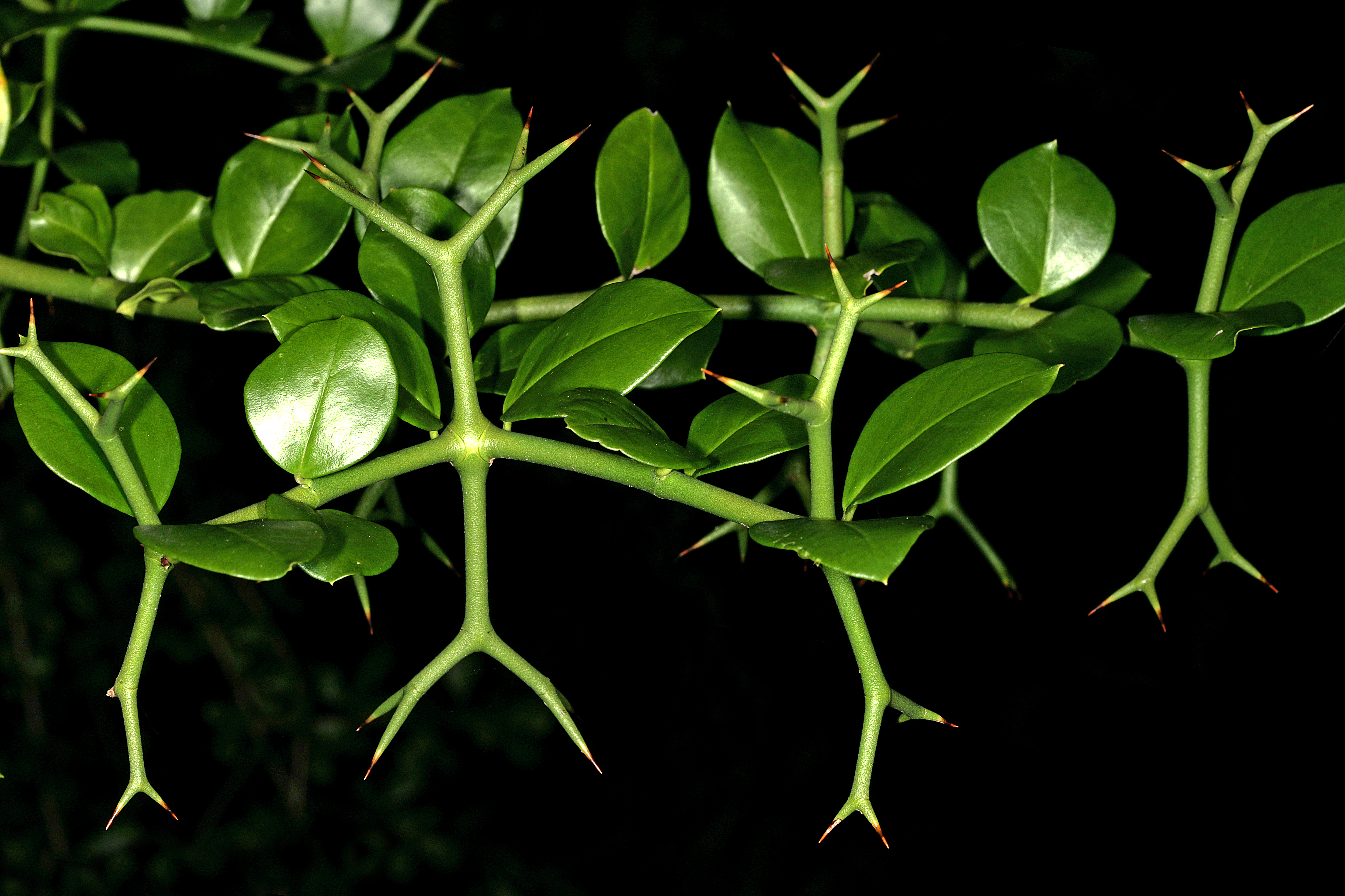 Carissa macrocarpa, thorns; Kirstenbosch National Botanical Garden, Cape Town, Western Cape, South Africa